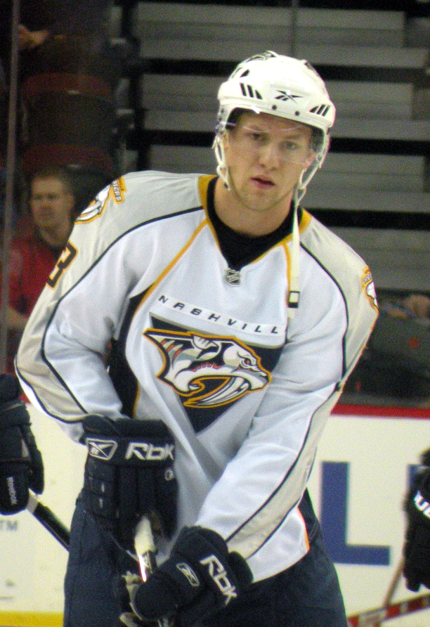 Nashville Predators rookie Nick Spaling prior to a National Hockey League game against the Calgary Flames.